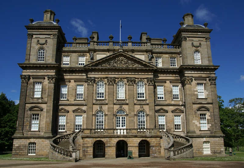 Duff House, Banff, Aberdeenshire, Scotland, seen from the south